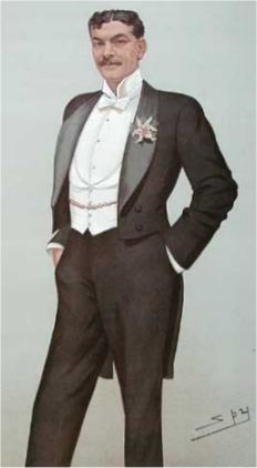 Press caricature, published in 1896, and long out of copyright